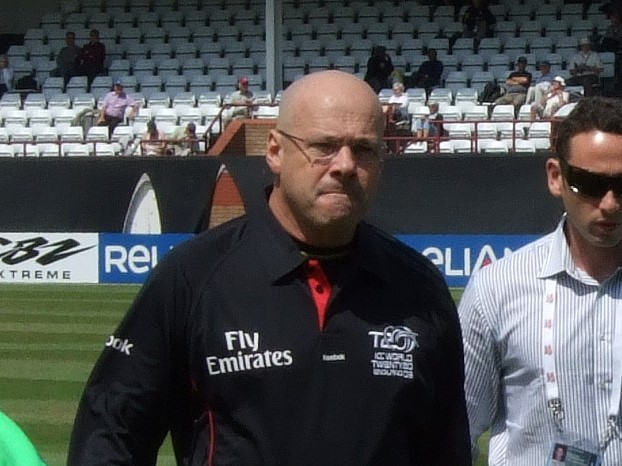 Daryl Harper, a cricket umpire, walking off the field during a 2009 Women's World Twenty20 at Taunton